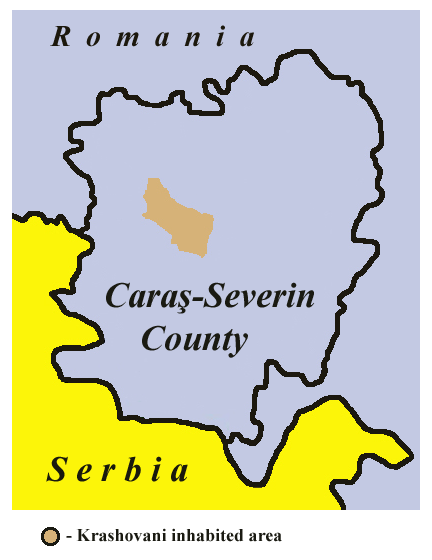 Krashovani inhabited area (self made)